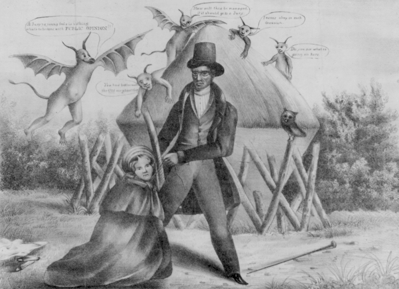 The first of two prints formerly thought to be anti-Jackson satires, but actually dealing with the sensational trial of Methodist minister Ephraim K. Avery in May 1833 for the murder of Sarah Maria Cornell. (See also "A Minister Extraordinary...," no. 1833-14). Miss Cornell, a young and pregnant factory girl, was beaten and strangled, and left tied to a post on a remote Massachusetts farm in December 1832. Avery was tried in May 1833 and despite considerable evidence against him (reported at length in the press) was acquitted on June 5. The artist's portrayal here appears to be based on published testimony from the trial. Avery, wearing green spectacles, is shown in the act of tying the young woman by the neck to a post before a haystack. Her shoes and kerchief lie on the ground at left, Avery's walking stick on the ground at right. An owl (the crime occurred at night) perches on one of the posts, and on and about the hut are demons, who speak: "Do you see what is going on here." "I never sleep on such occasions." "How will this be managed if it should go to a jury." "A Jury ye young fools is nothing. what's to be done with Public Opinion."